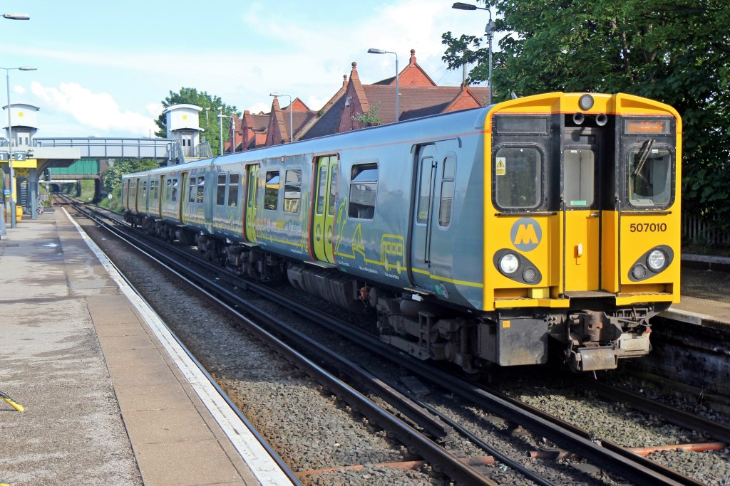 Merseyrail Class 507, 507010, Birkenhead North railway station